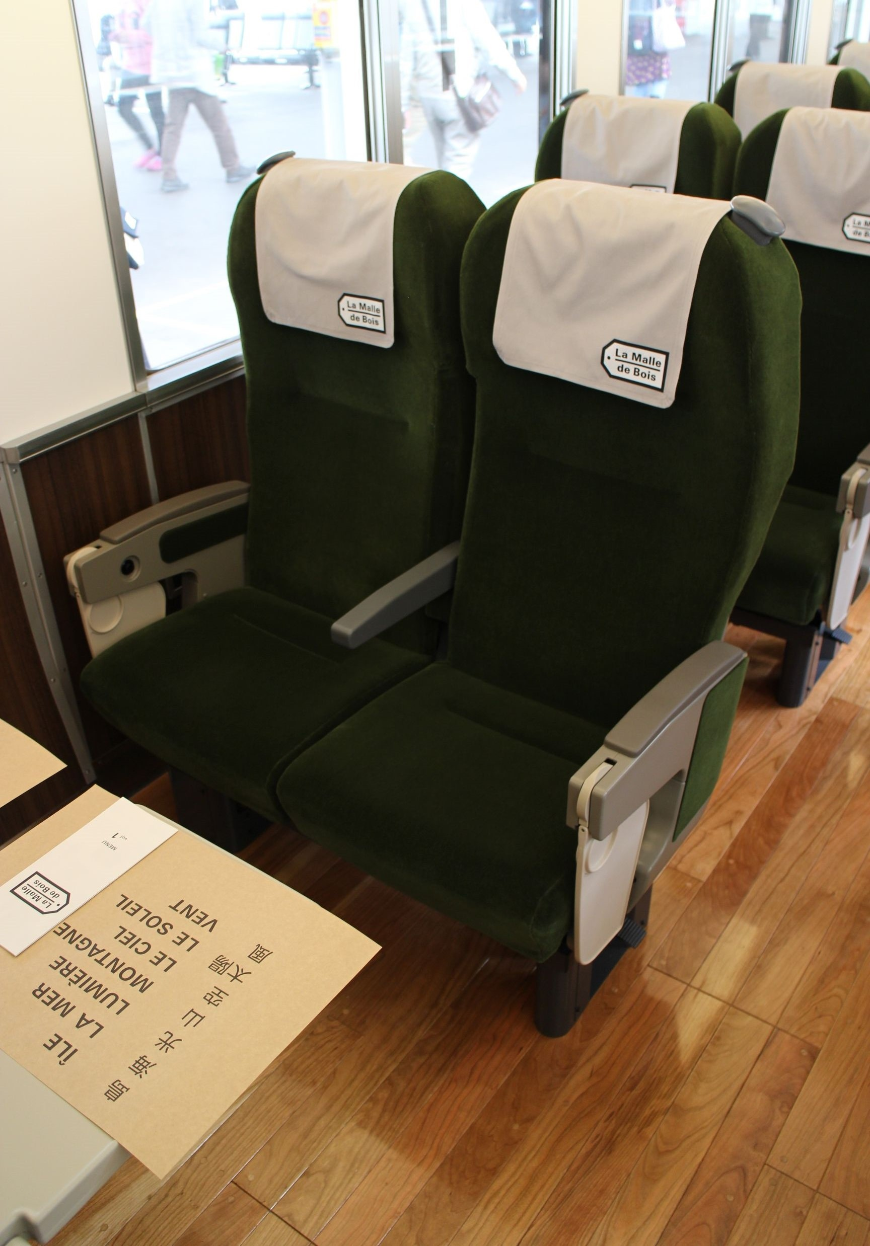 Seating inside the JR West 213 series La Malle de Bois tourist train